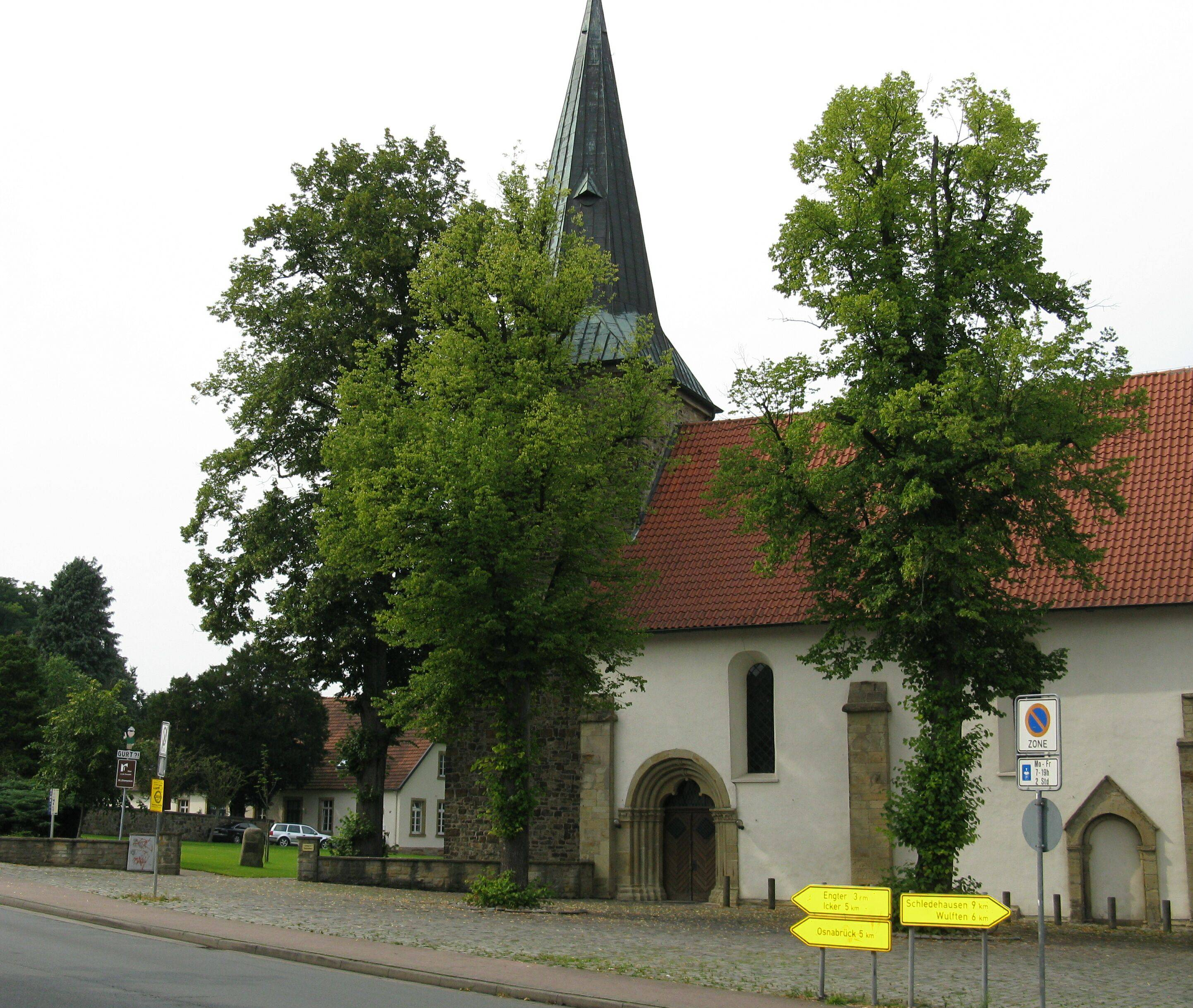 Belm: catholic romanesque church St. Dionysius